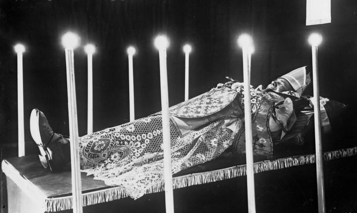 French cardinal Hector-Irénée Sevin (1852-1916) during his lying in state in Lyon (France).